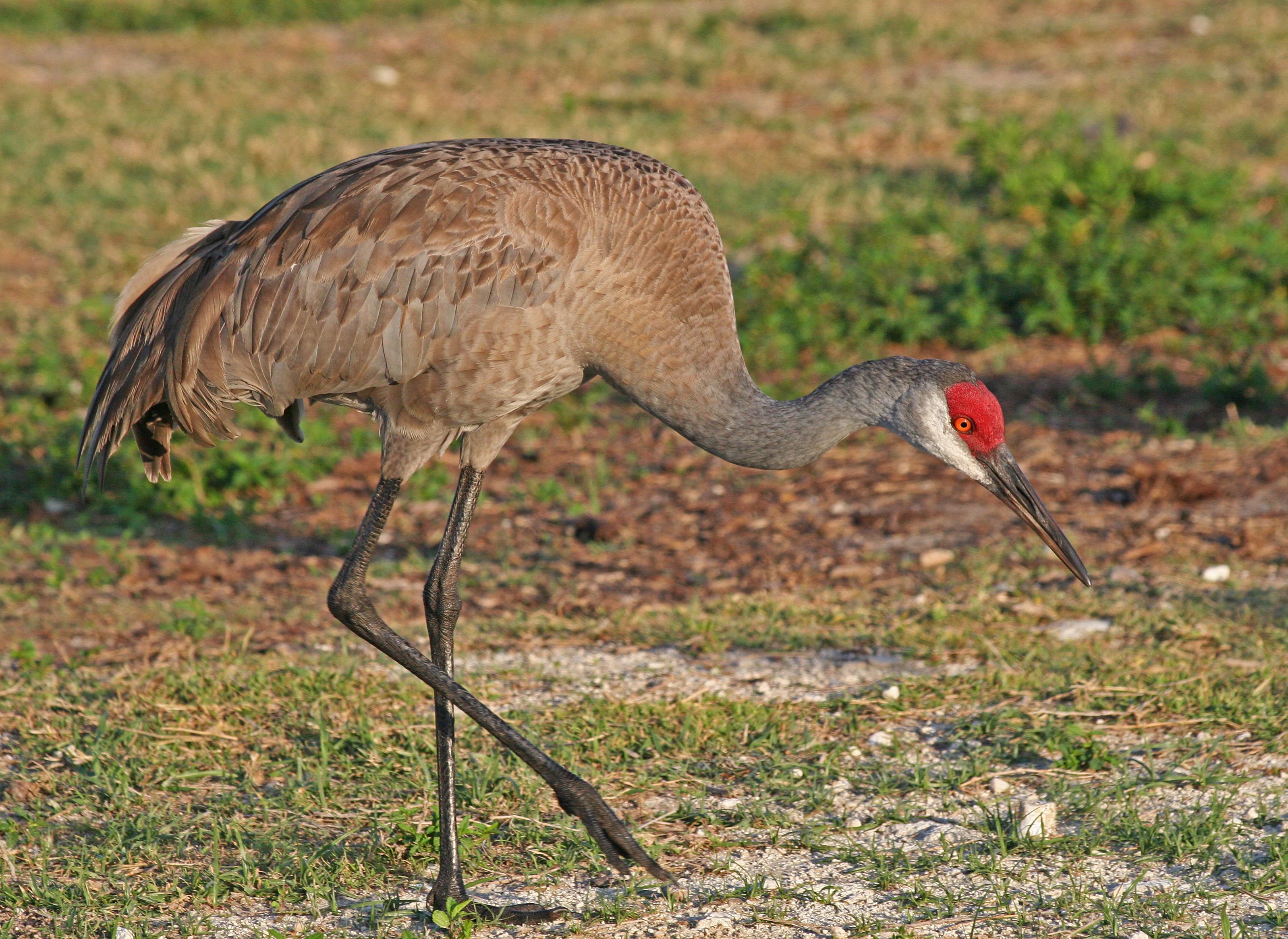 Sandhill Crane photo taken at Jonathan Dickinson State Park, Florida.